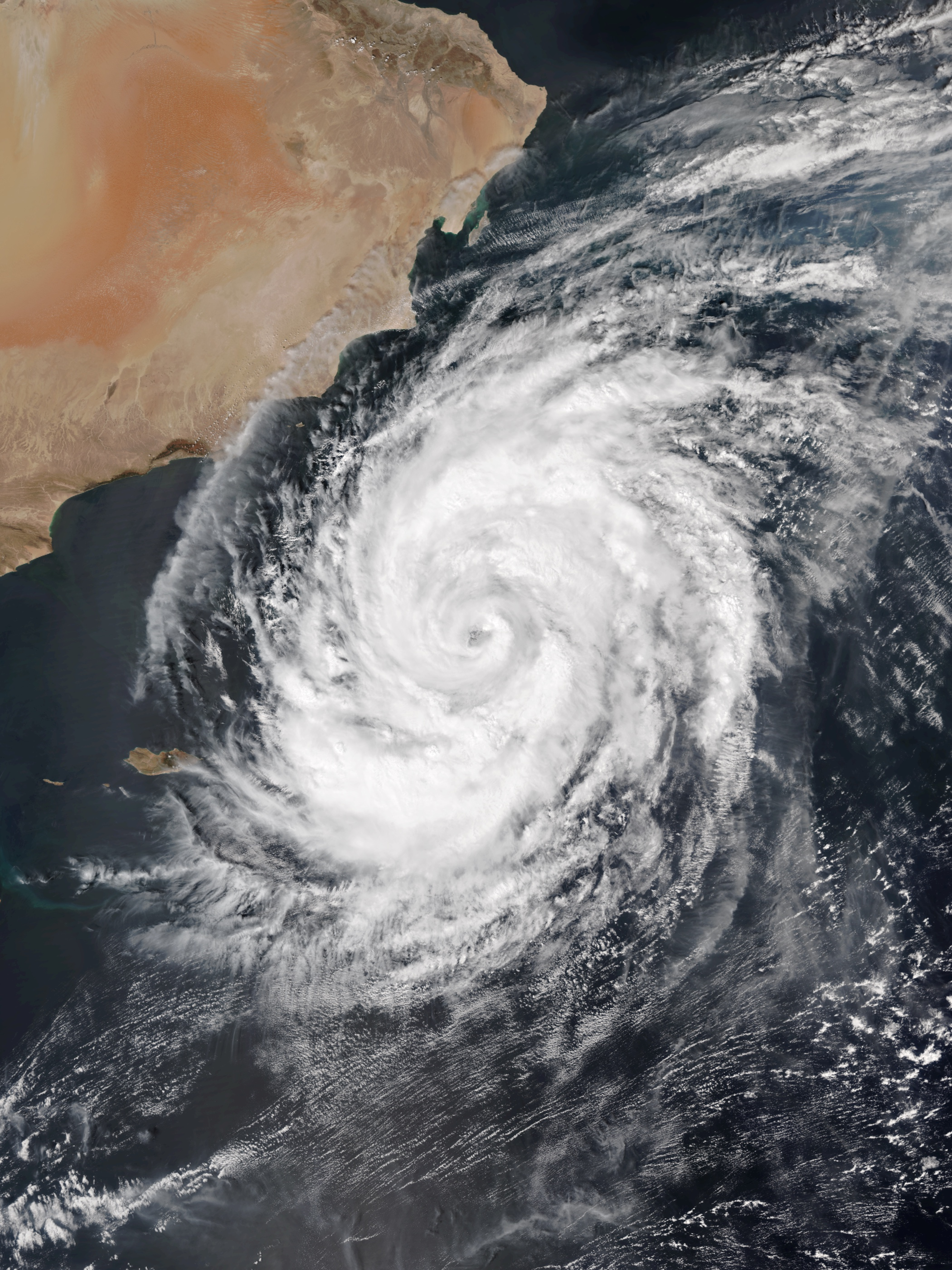 Very Severe Cyclonic Storm Luban east-northeast of Socotra on 10 October 2018.